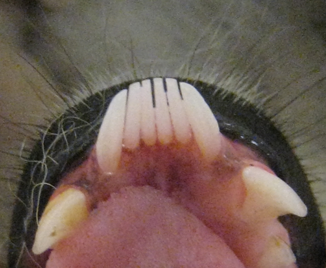 Toothcomb of a Lemur catta; taken during a routine physical examination